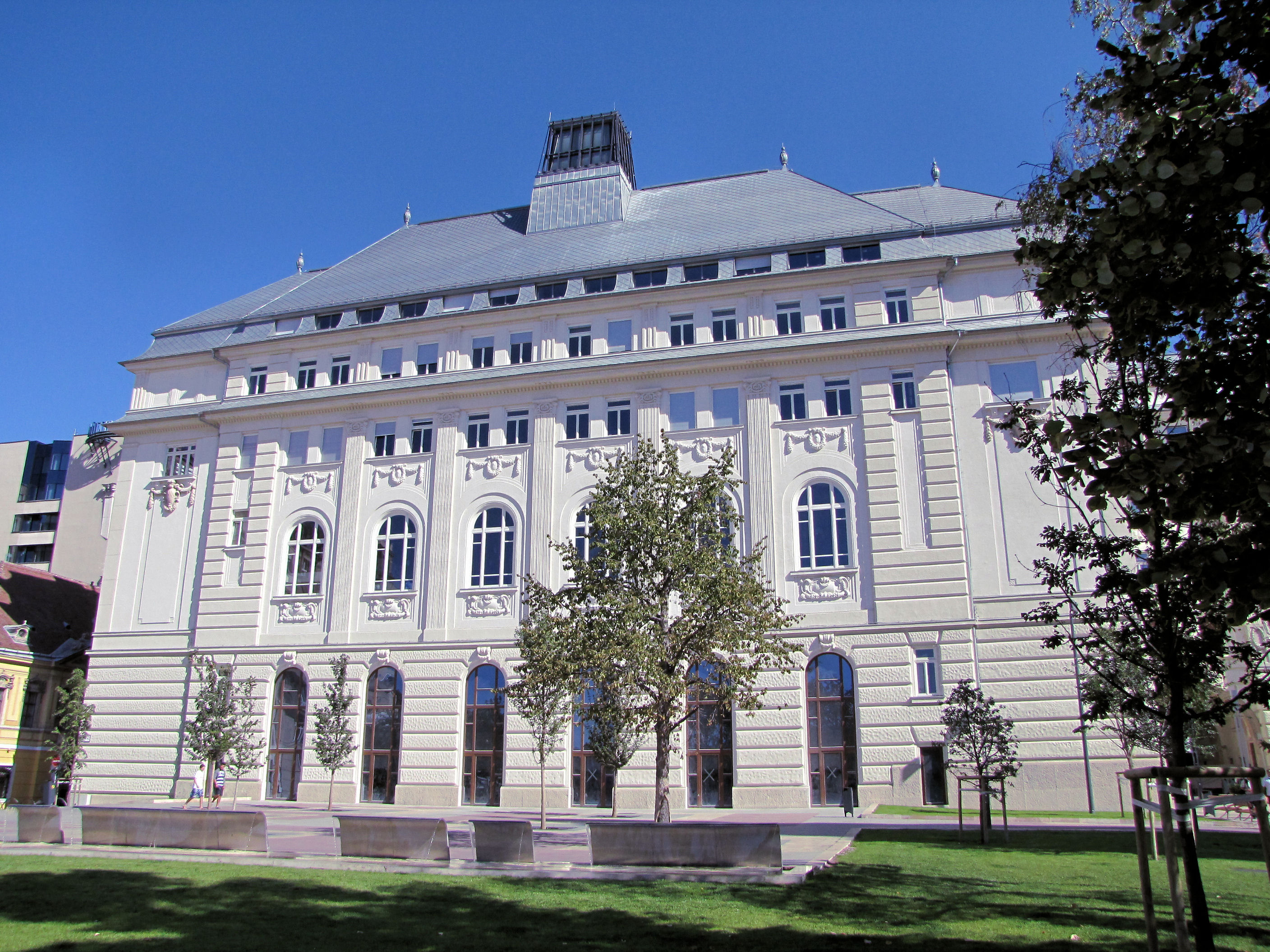 Piarist Center (High School), Budapest, Március 15. Square.